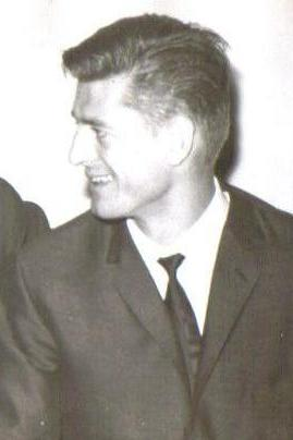 The Milutinović brothers, Milorad, Miloš and Bora.